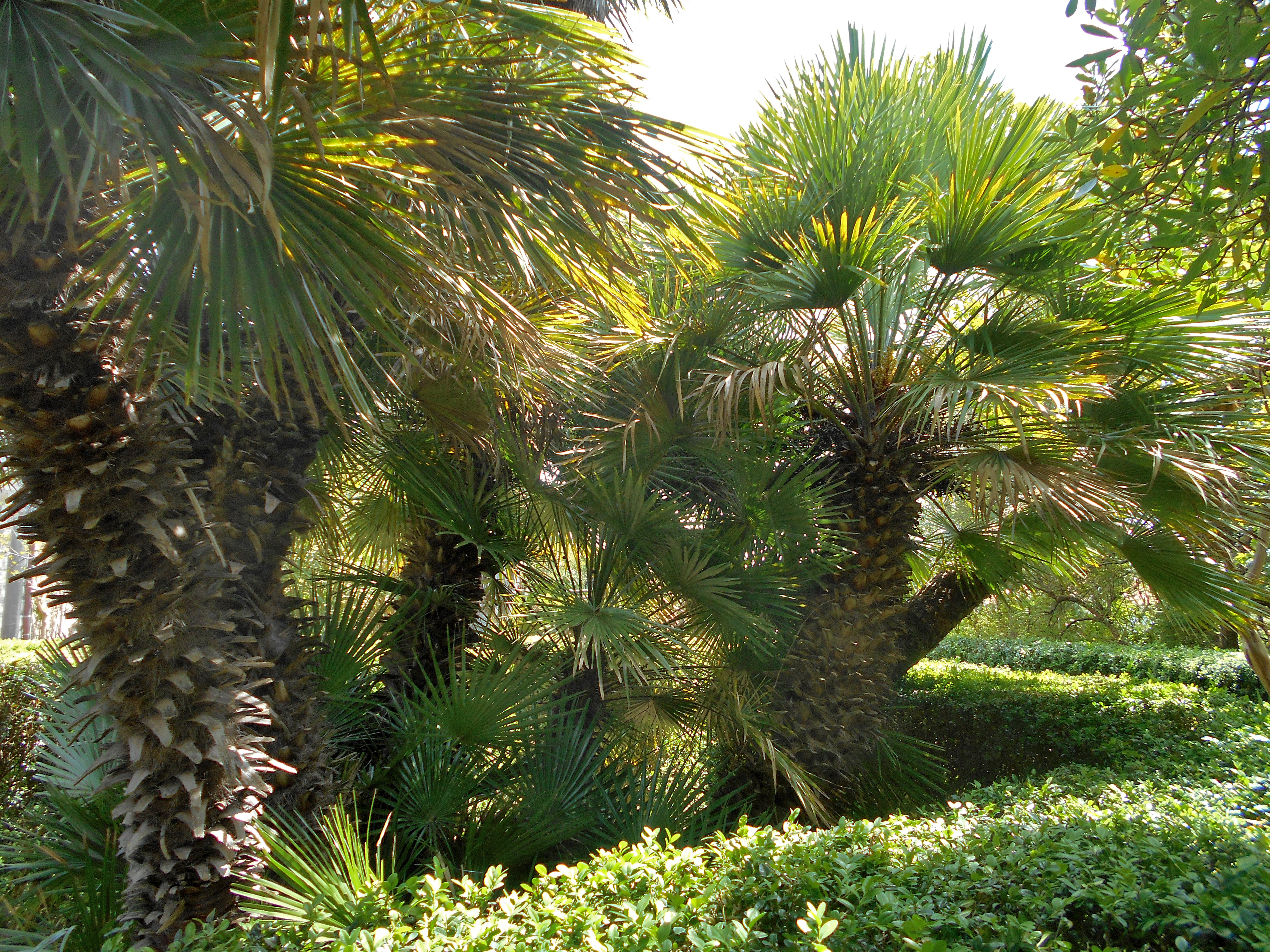 Chamaerops humilis in Trsteno arboretum, Croatia